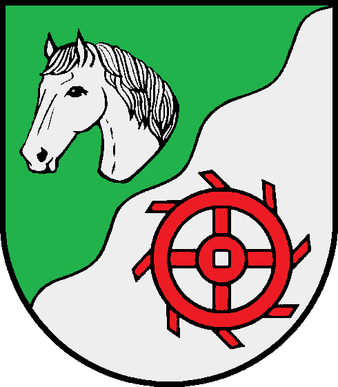 Coat of arms of the municipality Bendorf in Schleswig-Holstein, Germany.